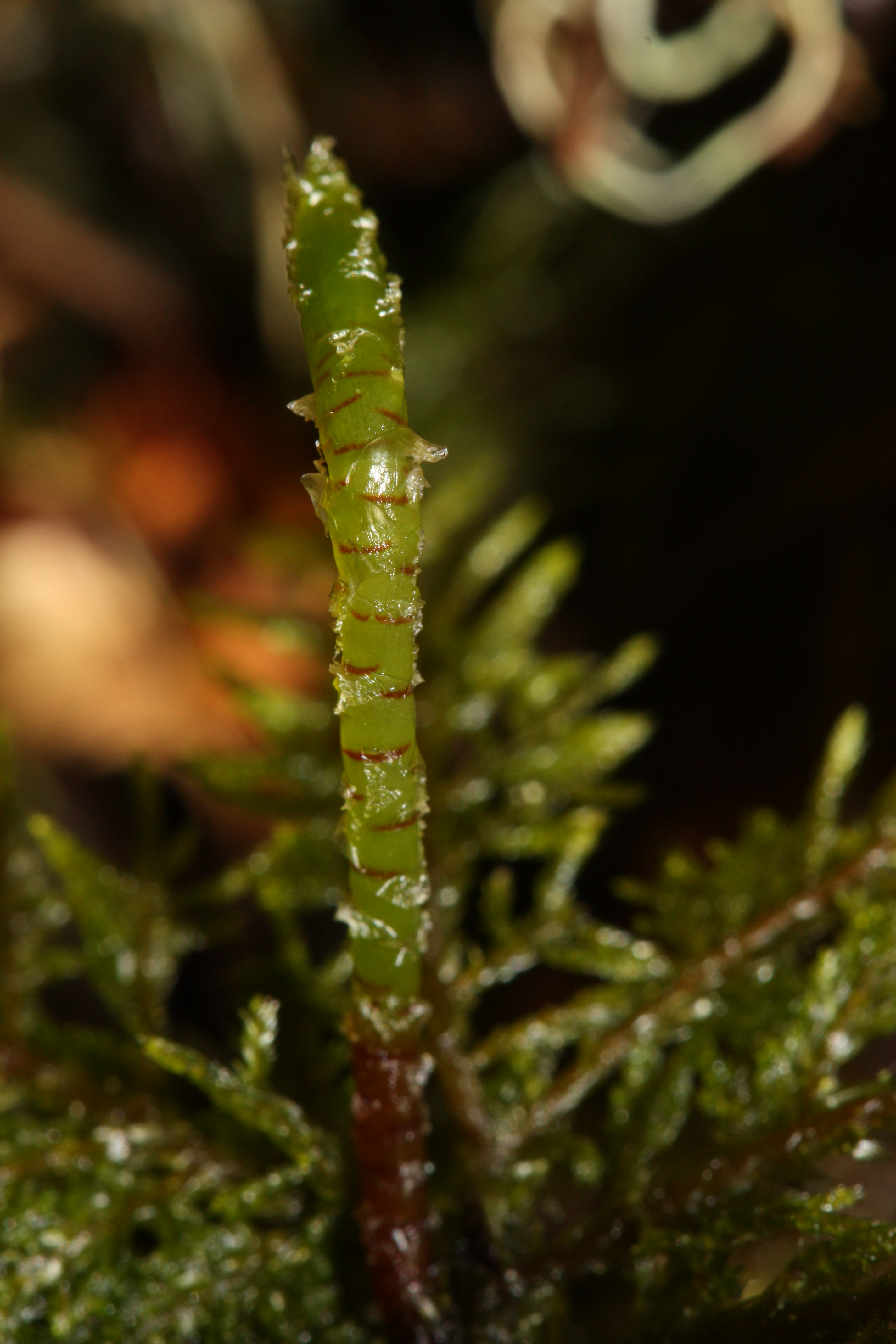 Splendid Feather Moss, Step Moss, Stair Step Moss